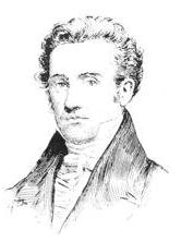 Nathan Sanford (1777-1838) was a US Senator from New York. This image is part of his congressional biography at [1] which is in the public domain.